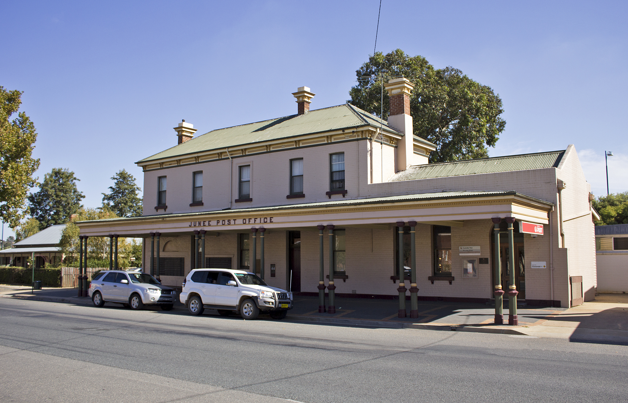 Junee Post Office on Lorne Street in Junee, New South Wales.